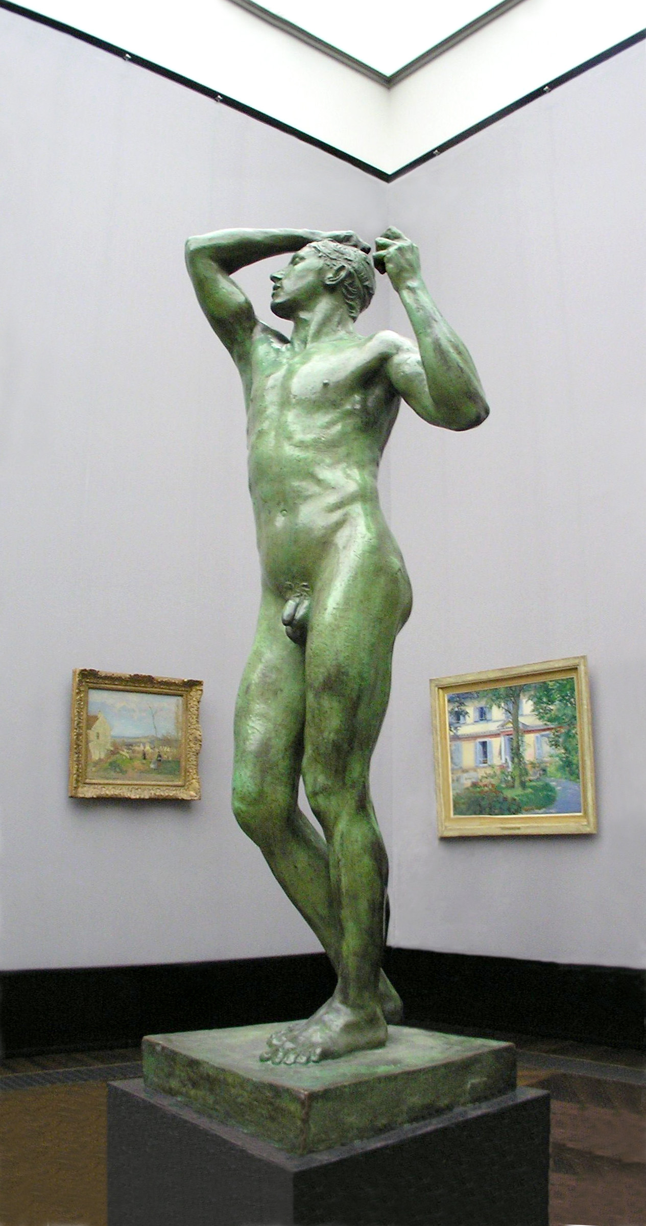 The bronze age (1875/76) by Auguste Rodin shown in the gallery of impressionists in the Alte Nationalgalerie (Old National gallery), Berlin. Behind to the right a panting by Édouard Manet, on the left a painting by Camille Pissarro.